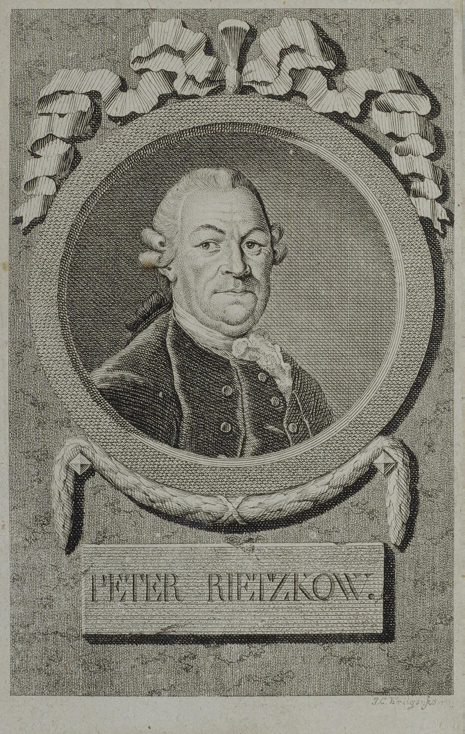 Portrait of Petr Ivanovich Rychkov